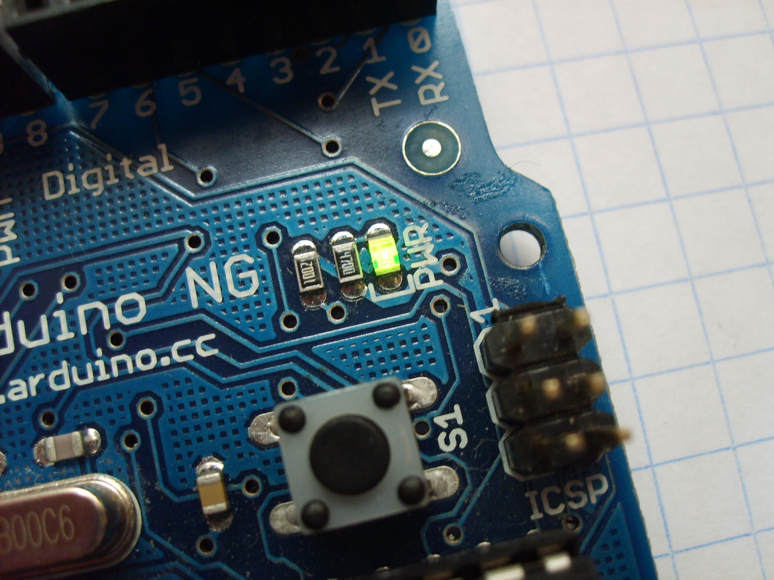 A green, glowing SMD (surface-mount device) LED (light-emitting diode) on the Arduino NG board from arduino.cc. The LED is marked with PWR.